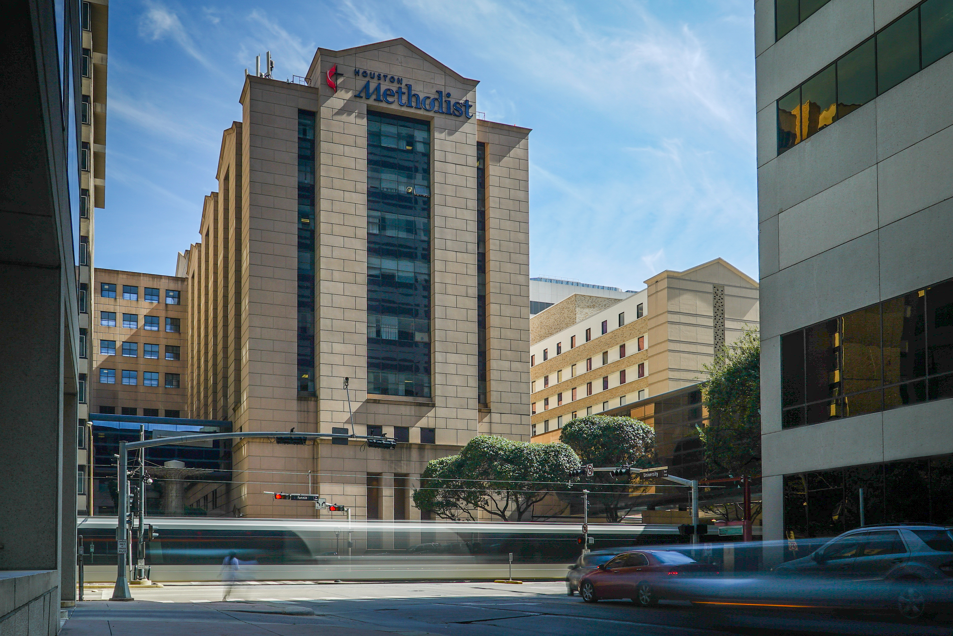 Houston Methodist Dunn Tower